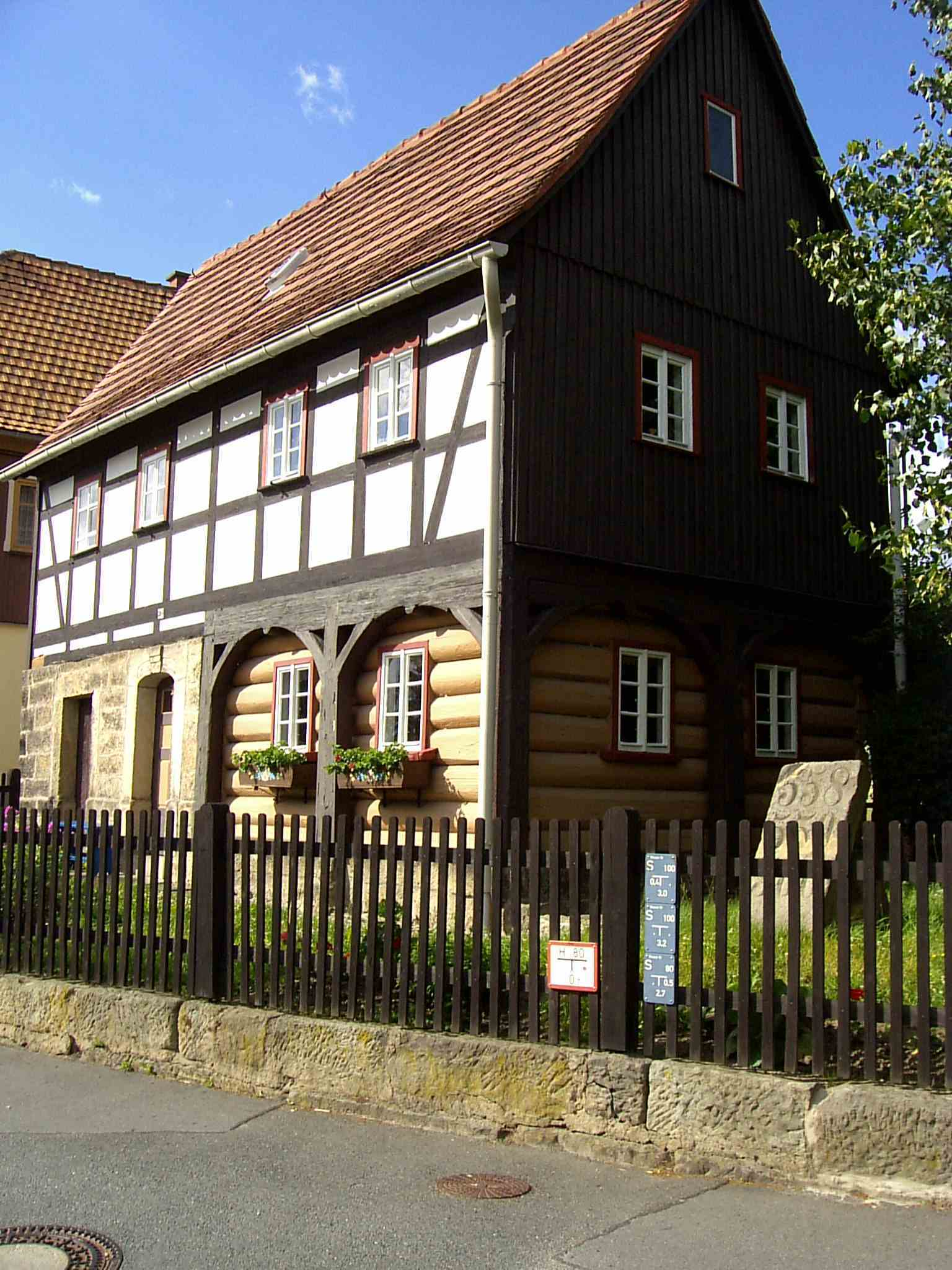 Local museum of Schoena in Saxonia, Germany